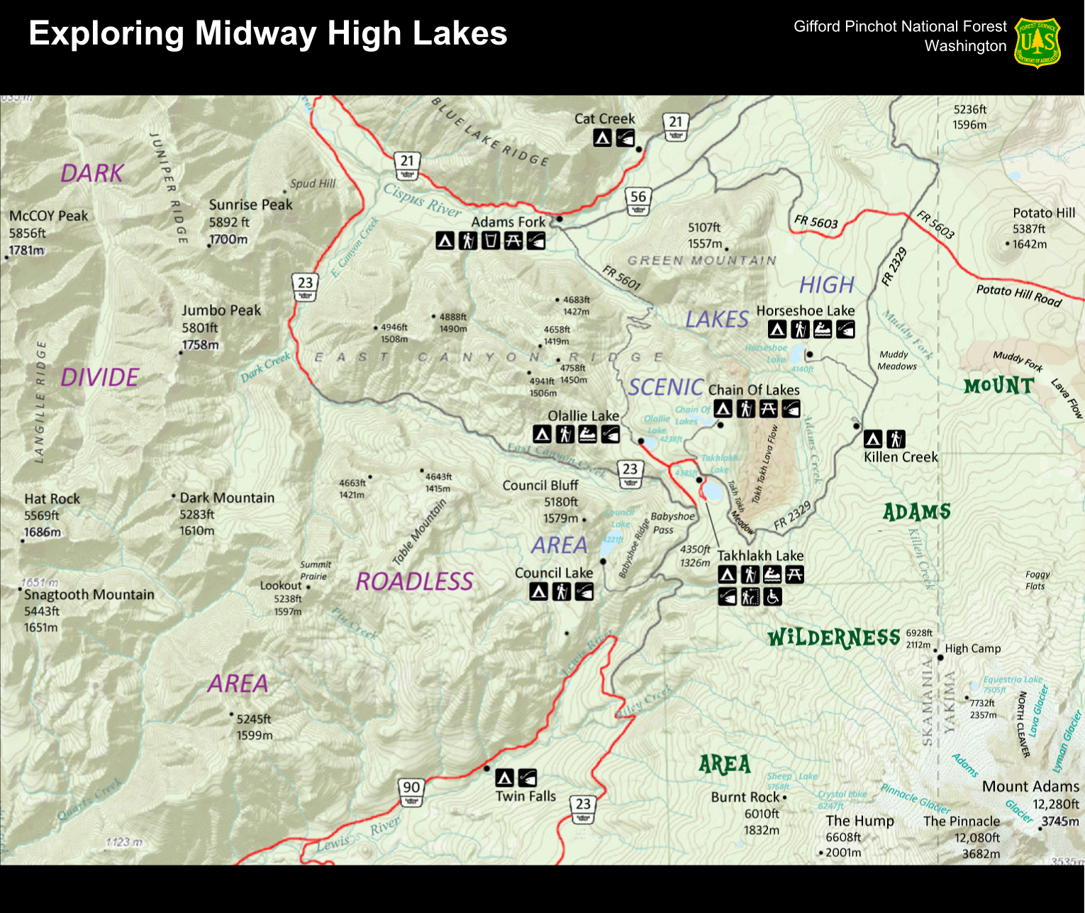 The Midway High Lakes Vicinity of Mount Adams offers many developed and primitive camping experiences. Within a 7-mile radius are five high-elevation lakes with developed campgrounds. Each provides fishing and limited boating, with access to nearby berry picking and recreation trails to the Mt. Adams Wilderness. You will see spectacular views of Mt. Adams from some of the lakes. You can reach this area by car during the snow-free period, usually from mid-June until mid-October.